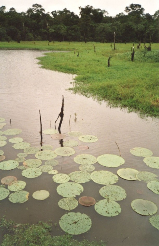 Flooded forest in the Amazon basin, close to the meeting of the Rio Negro and Rio Amazon at Manaus, Brazil. This was taken in February when the river flooding is seasonally low.